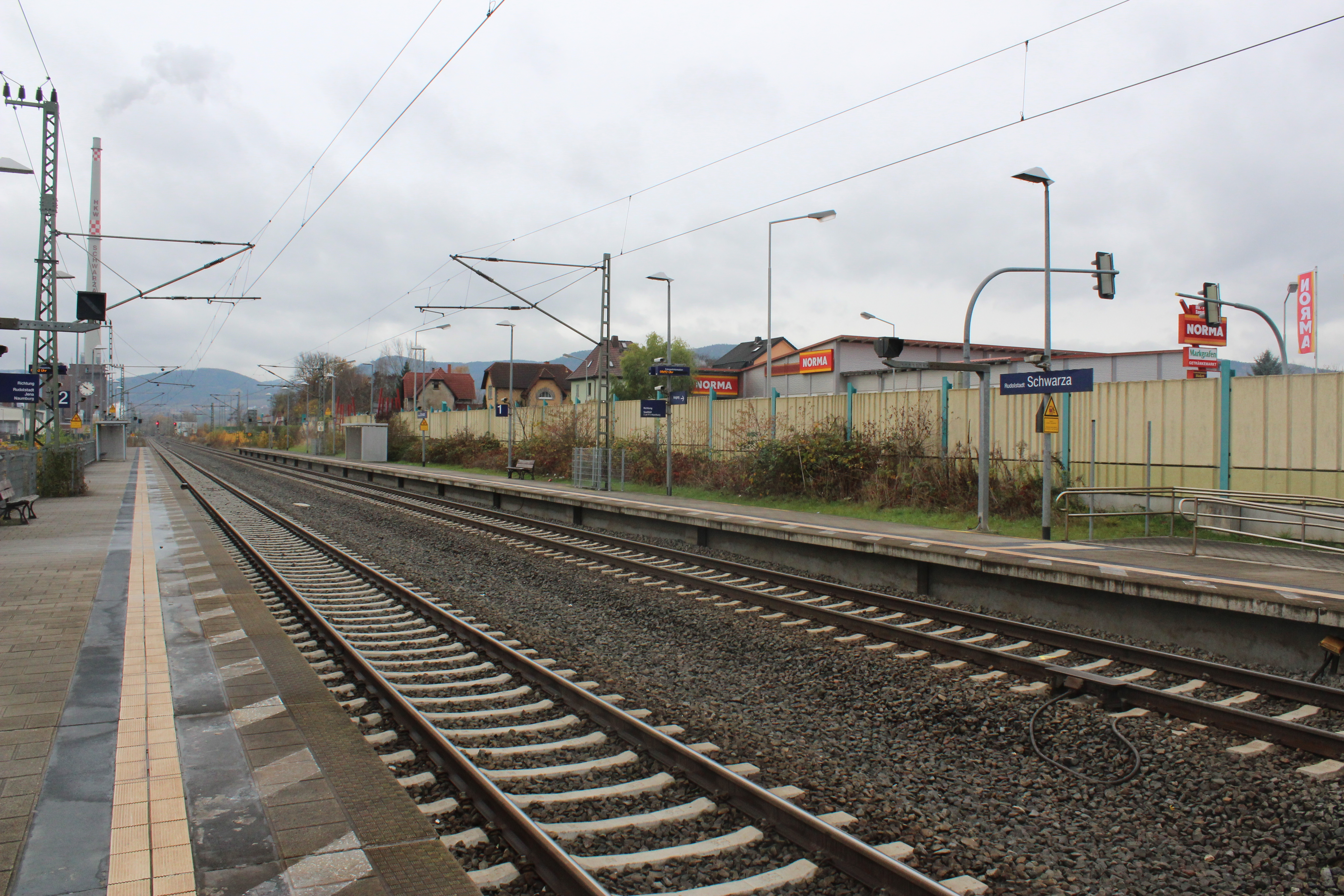 train station Rudolstadt-Schwarza, platforms